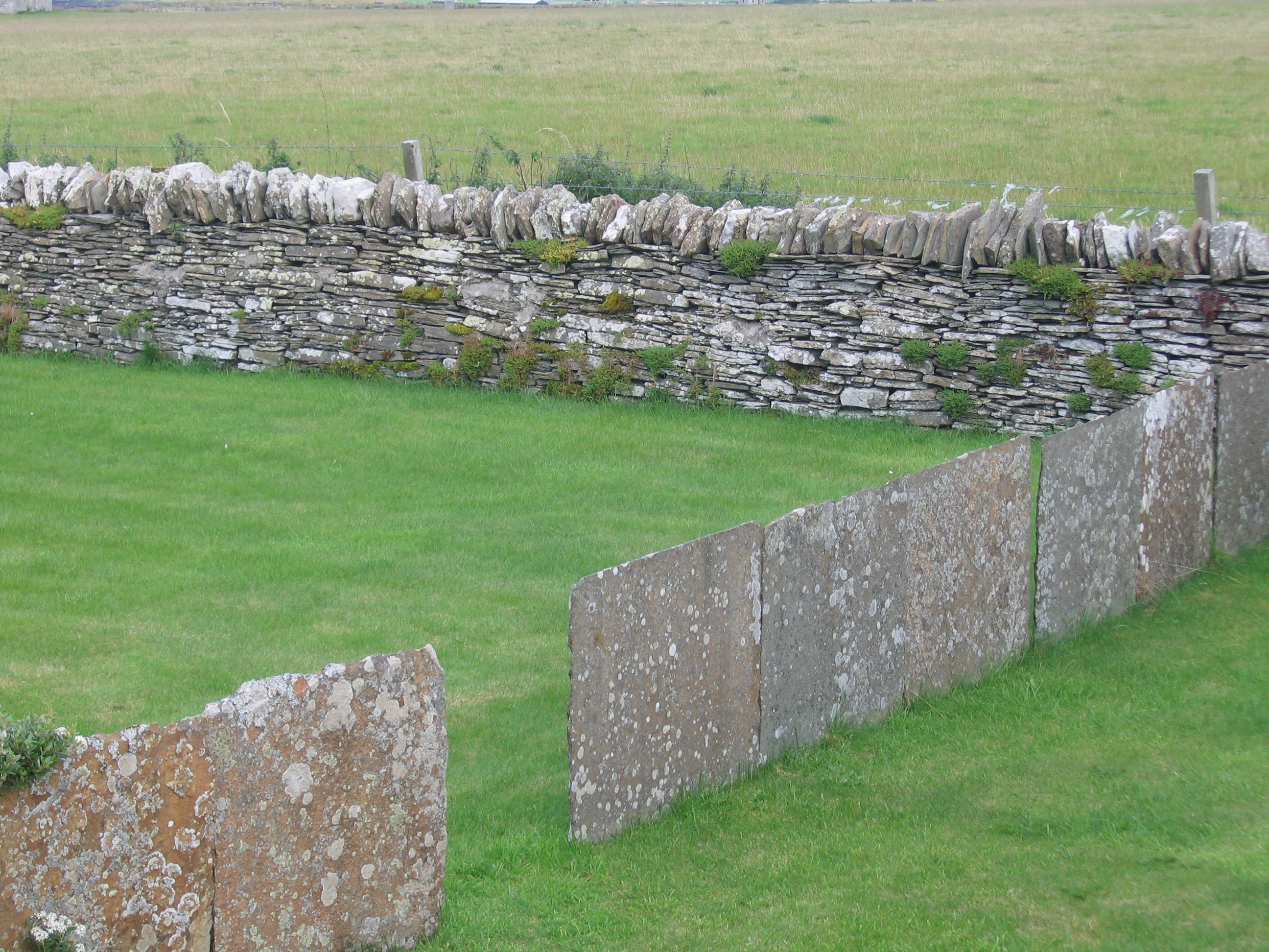 Flagstone of Thurso (untypically used as a garden fence)